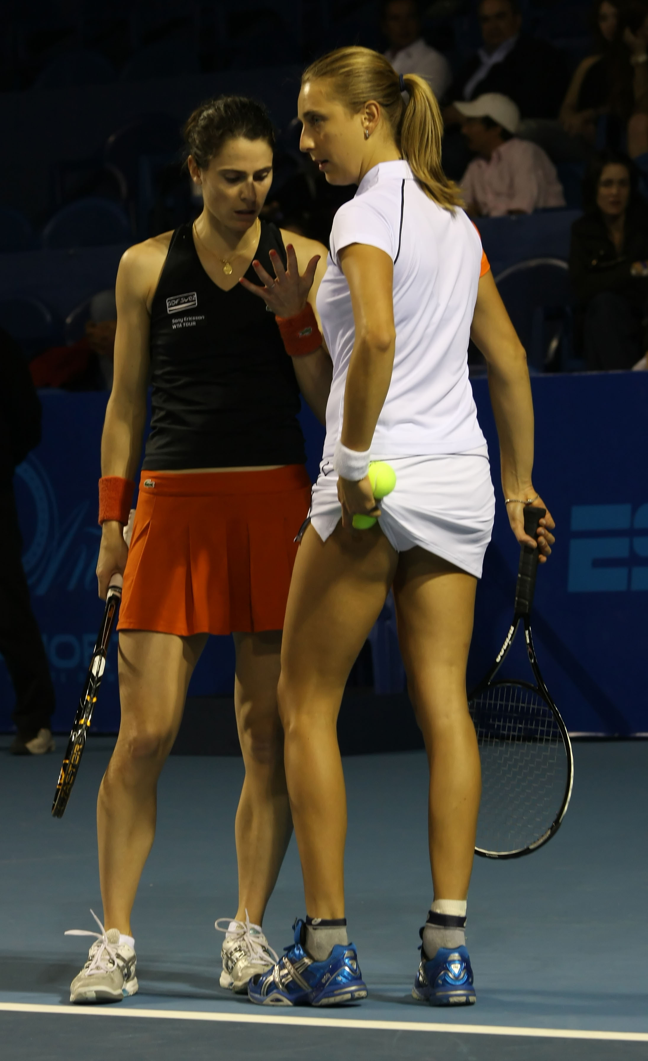 Nathalie Dechy, Mara Santangelo